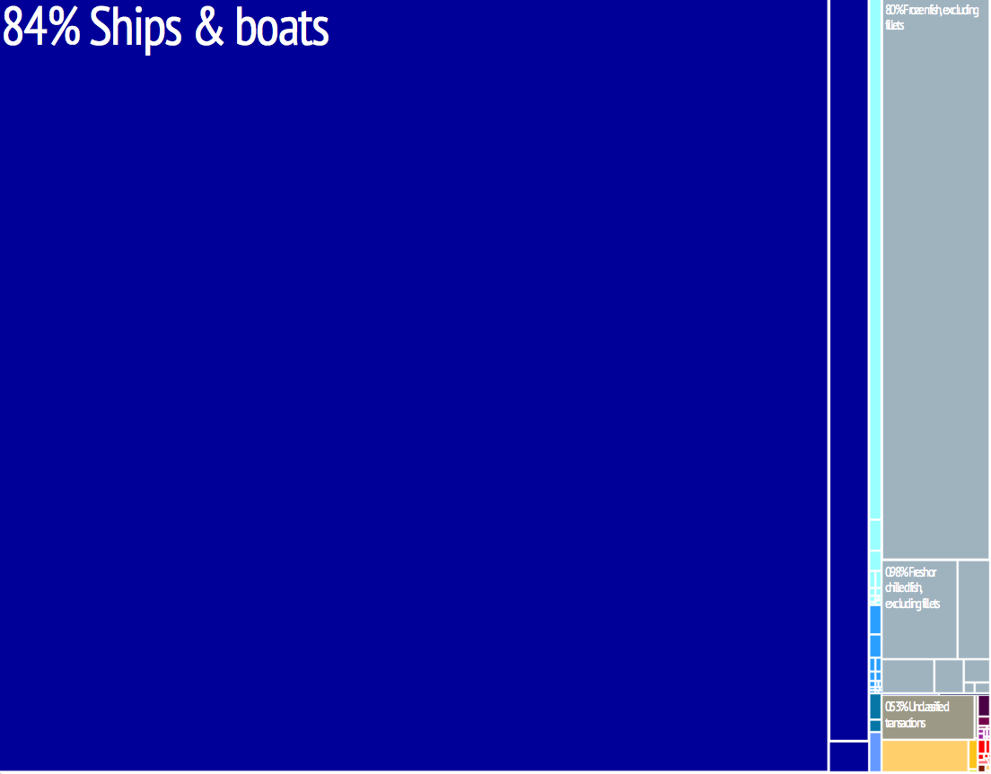 Export Trading Treemap. From MIT/Harvard Atlas of Economic Complexity